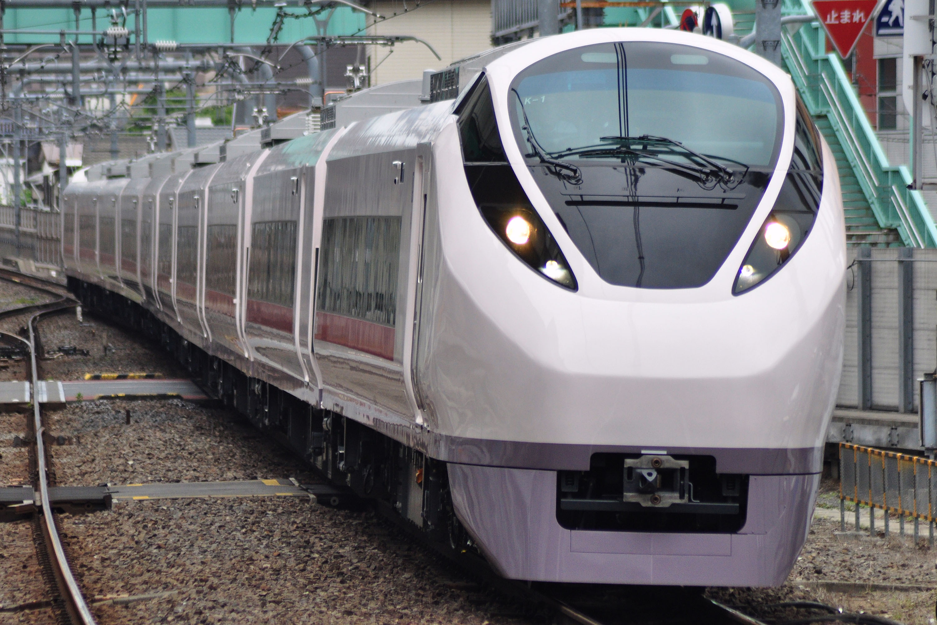 JR East E657 series EMU set K-1 near Kita-senju Station on a test-run on the Joban Line